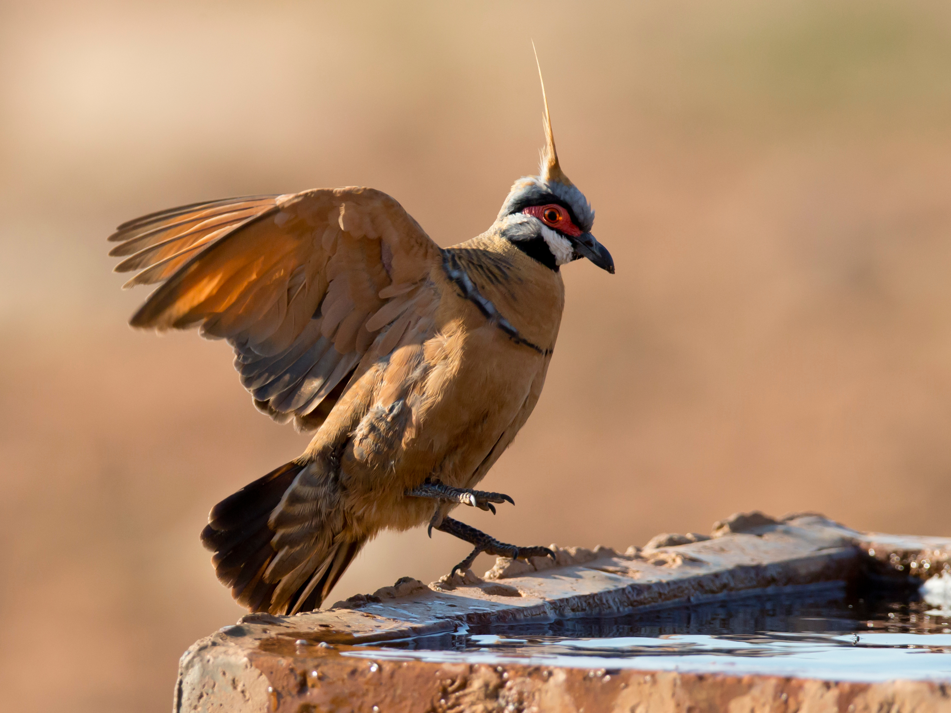 Spinifex Pigeon (Geophaps plumifera)